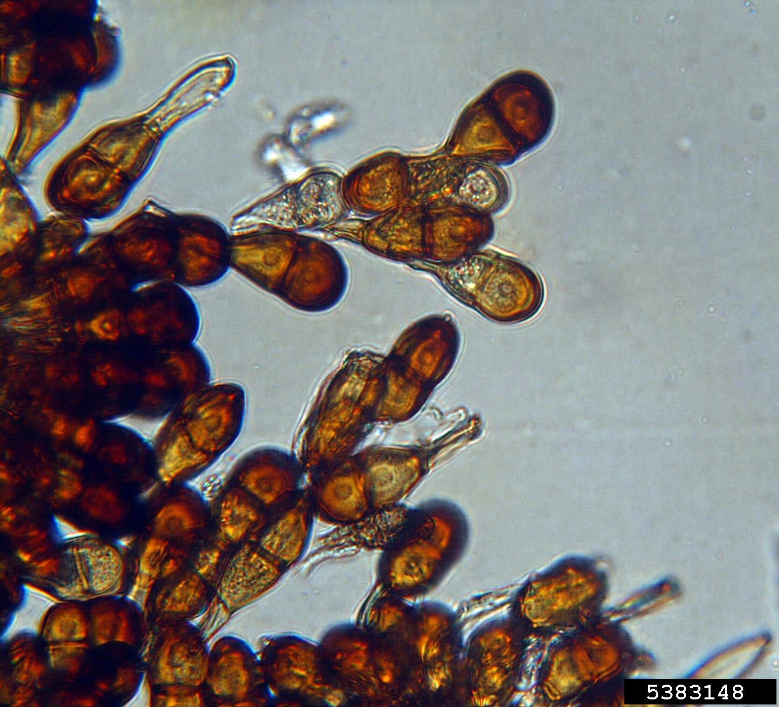 rust (Puccinia emaculata Schwein.) Teliospores